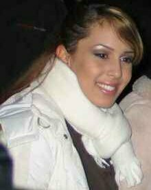 Miriam Cani of "Preluders" in Winterberg.